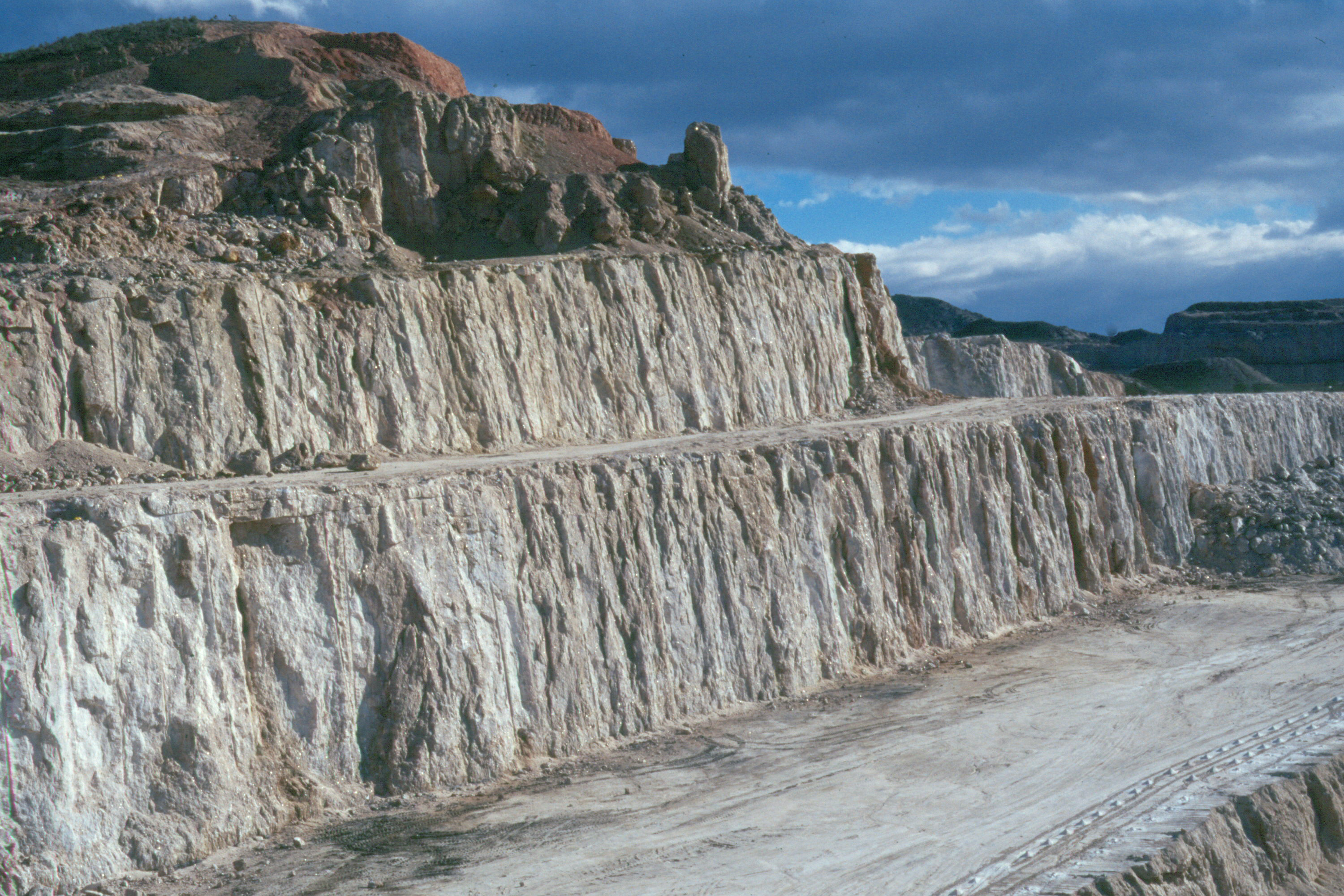 Gypsum quarry in Molino de Río de Aguas, Almería, Spain.